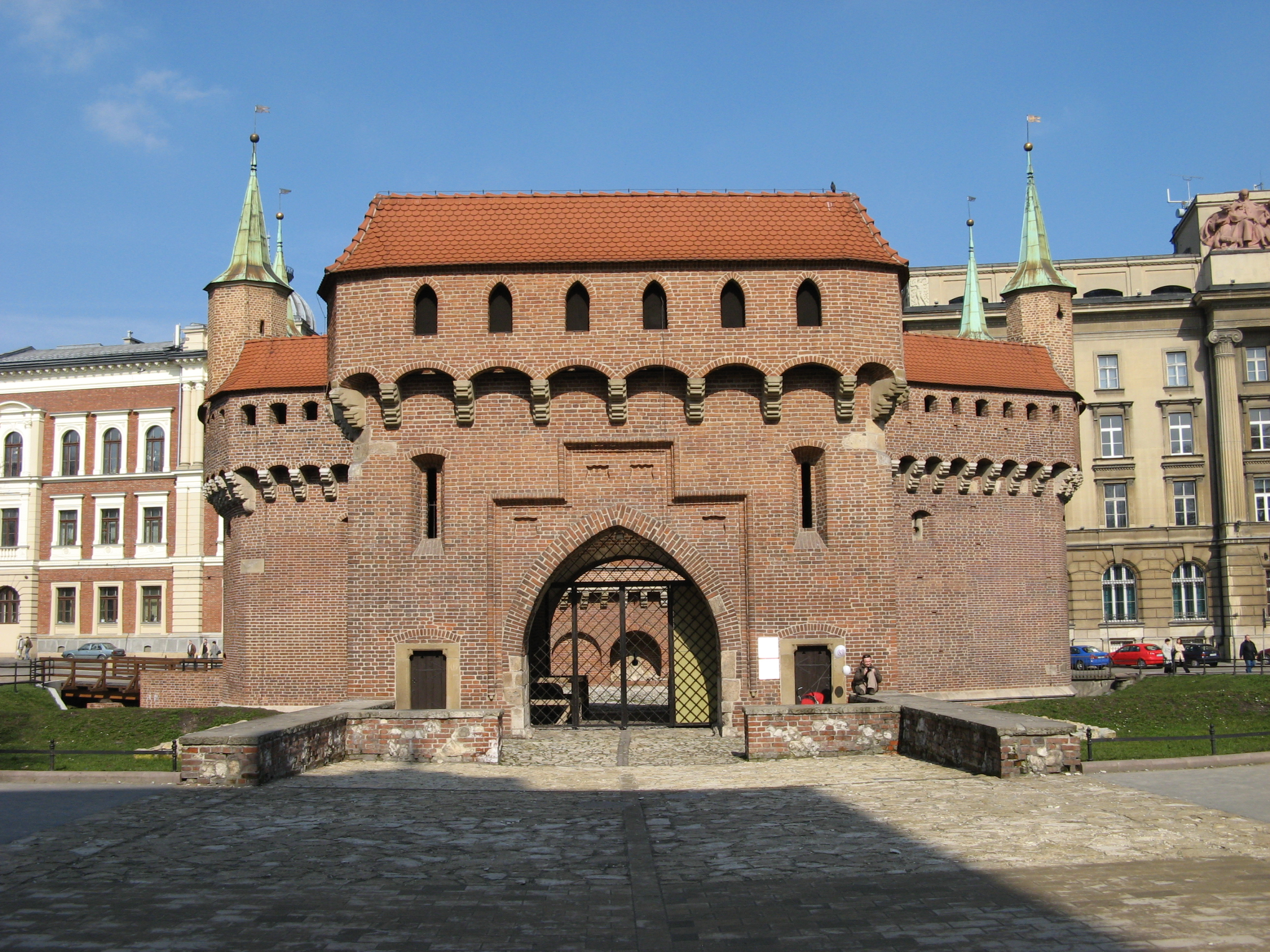 Barbakan in Kraków